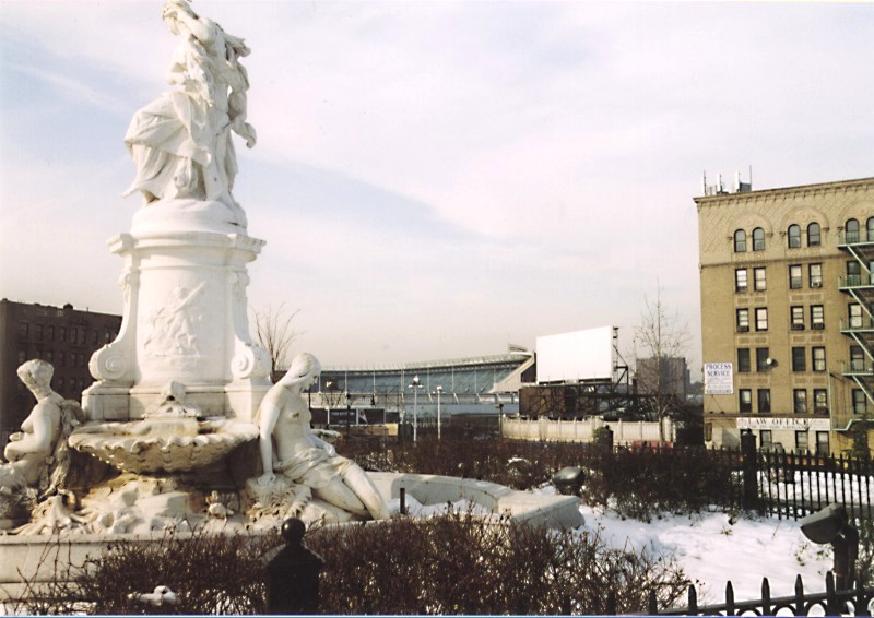 Loreley well in the Bronx, New York City. Author's submission, December 2003. GNU-FDL. In the background is Yankee Stadium.